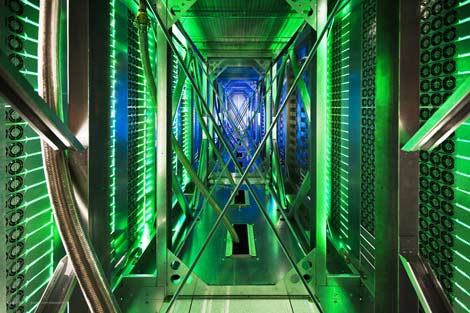 Google Data Center - Photo: Connie Zhou